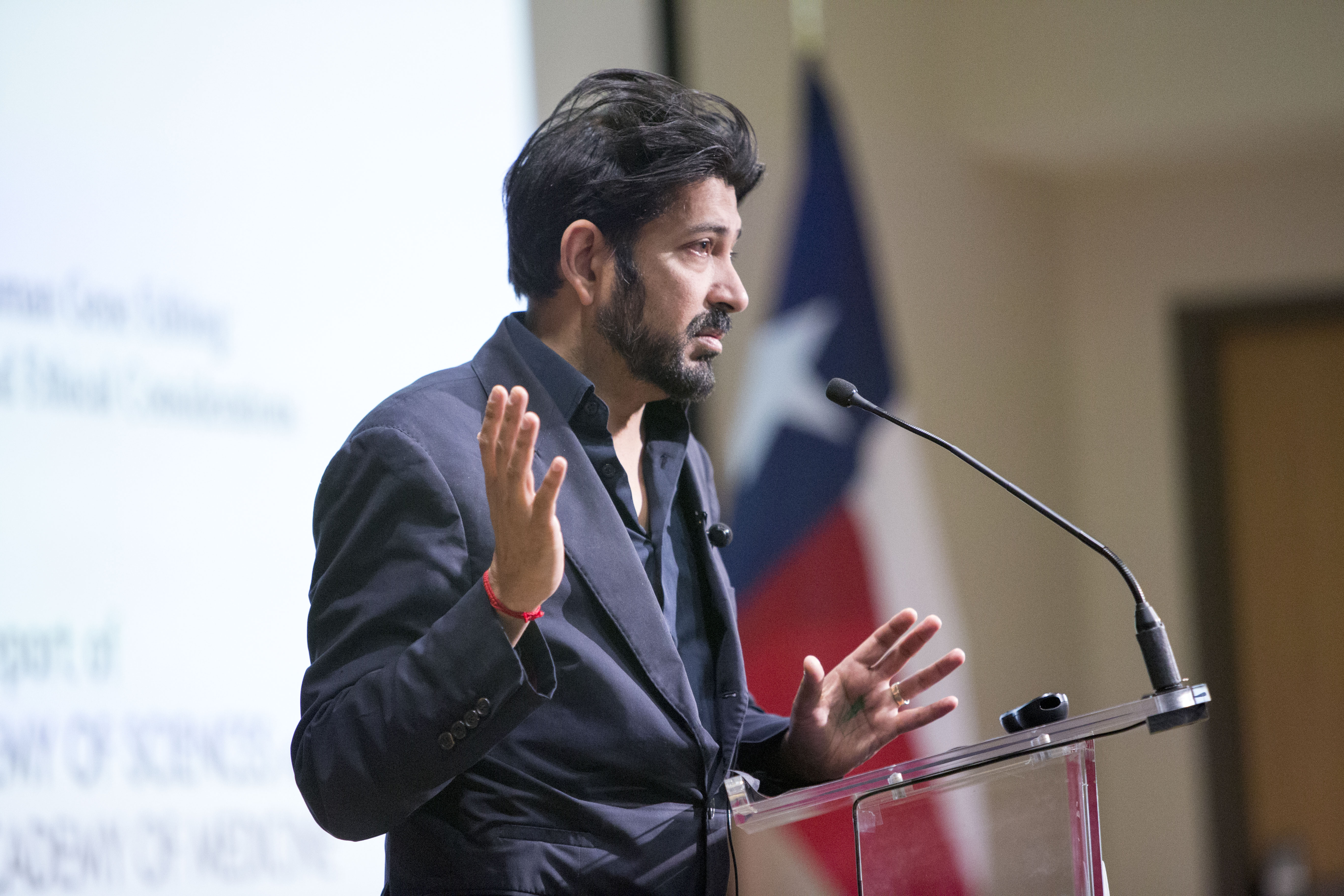 2017 McGovern Lecture in Health Communication. Moody College of Communication at The University of Texas at Austin.